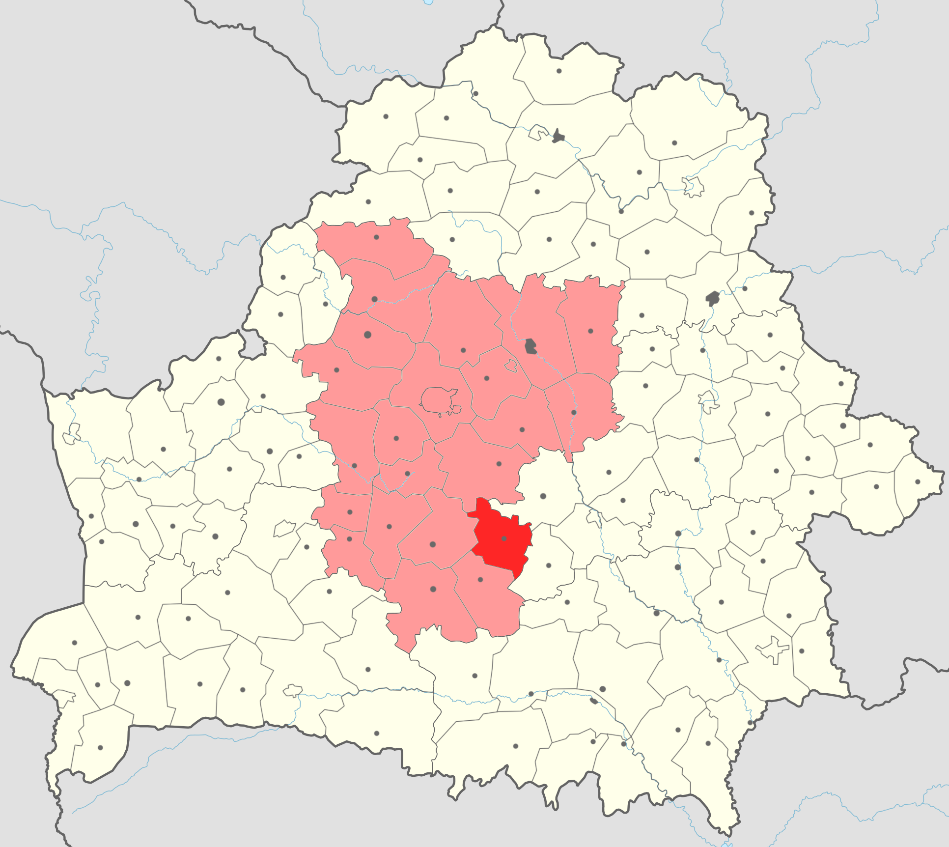 Map of Staradarožski rayon (in red) with Minsk voblast' (in light red) on the map of Belarus.